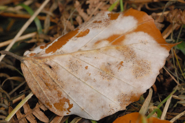 Coccomyces coronatus from Commanster, Belgium. If you think this is a different taxon, please contact James Lindsey.